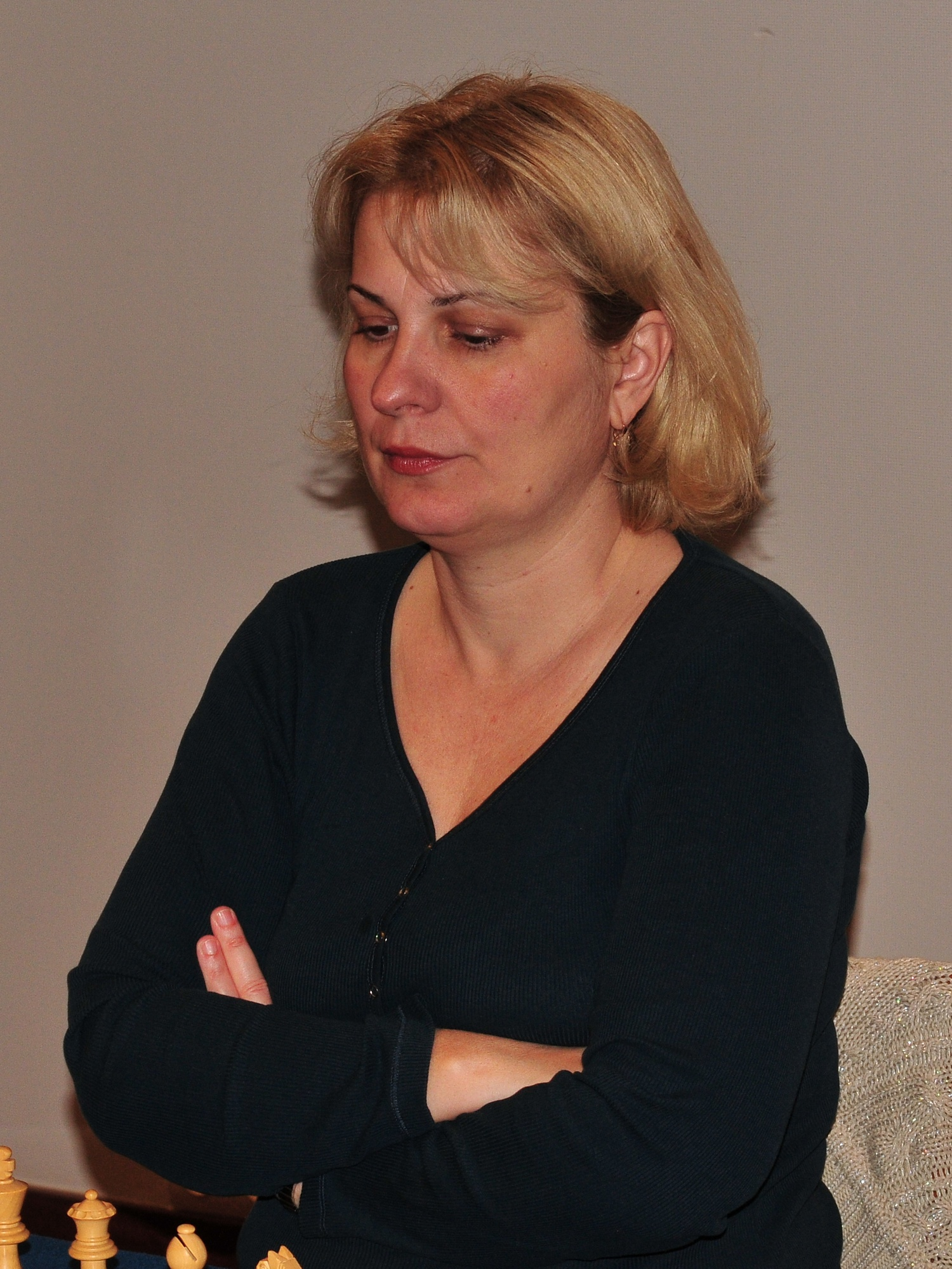 IM Nataša Bojković, European Chess Team Championship Warsaw 2013